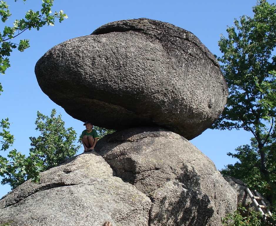 Rocking stone Schwammerling in Naturpark Mühlviertel, Rechberg, Upper-Austria